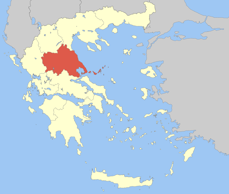 Locator Map of Thessaly Periphery, Greece